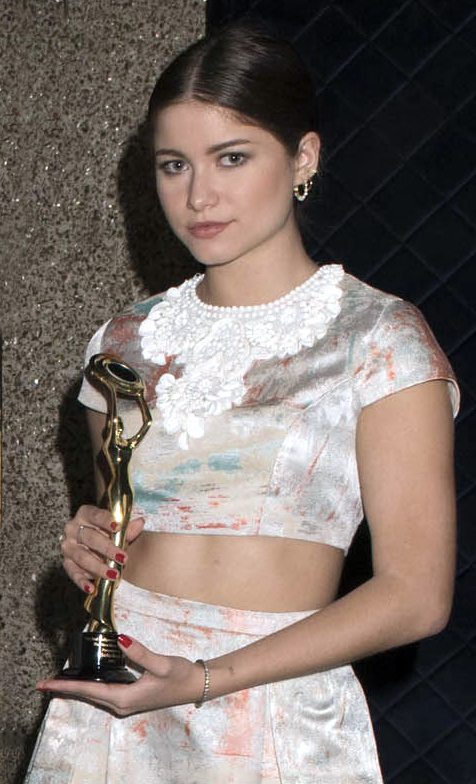 2016 New Beauty Recipients: Sofía Reyes